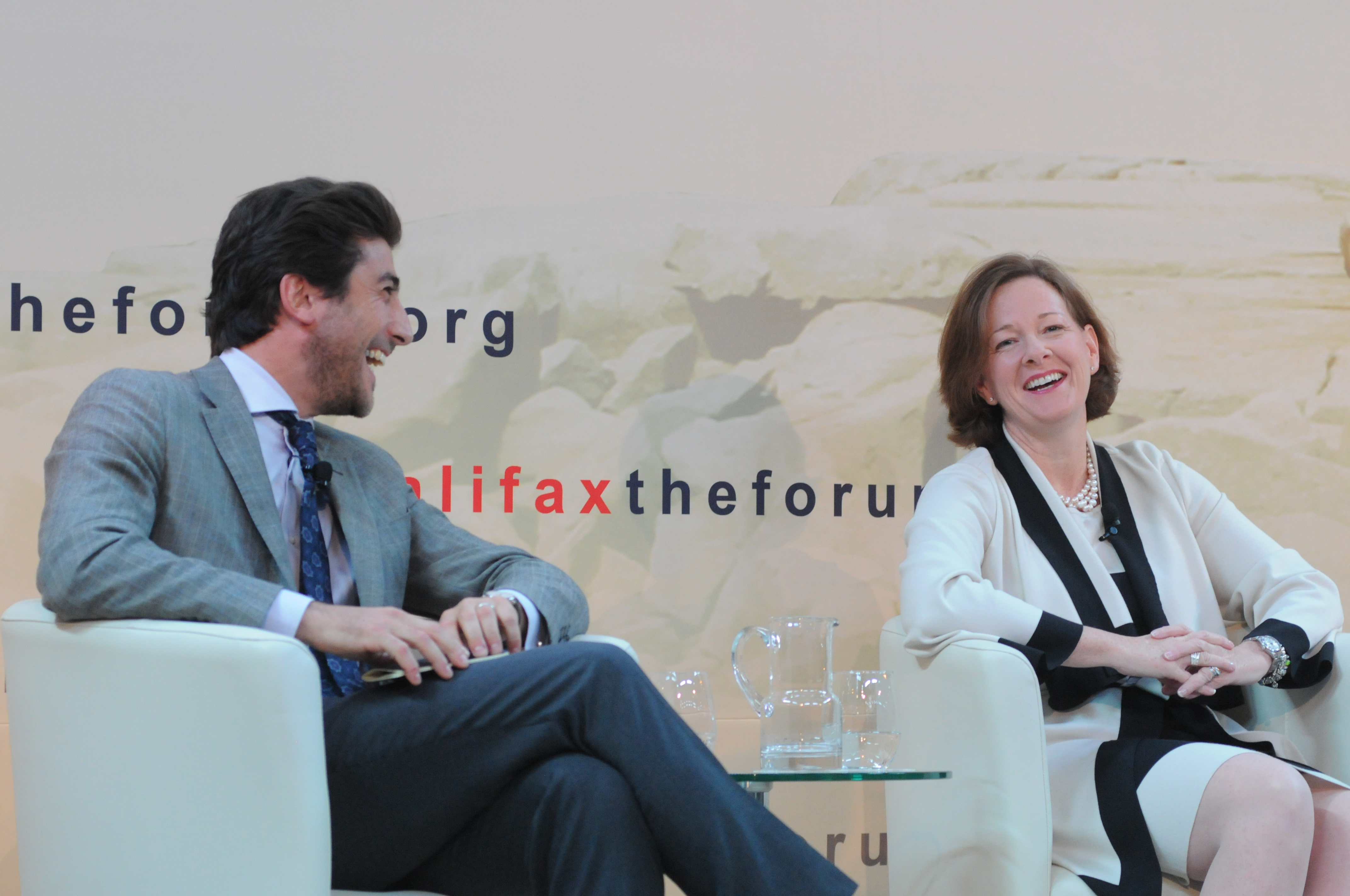 NATO's Fabrice Pothier and Premier Alison Redford speak on panel "North America Off Foreign Oil and It’s Impacts Everywhere Else" at the 2012 Halifax Forum.